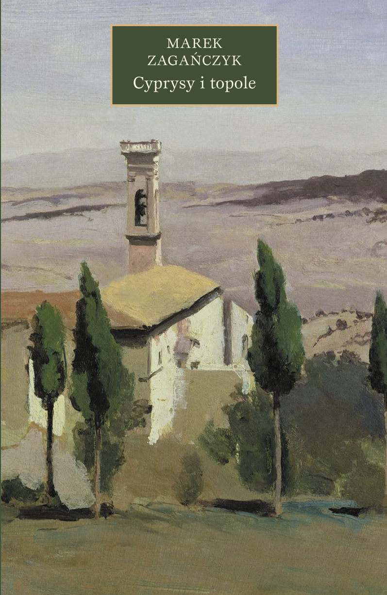 Book cover: Marek Zaganczyk "Cyprysy i topole"